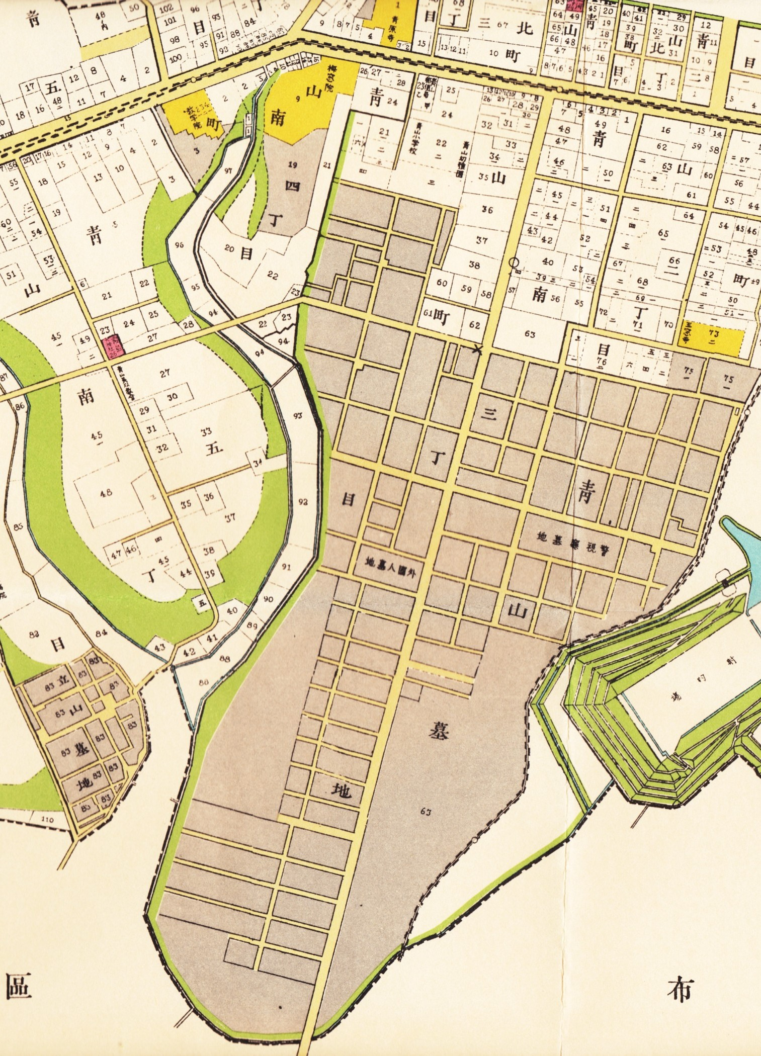 Aoyama graveyard at Tokyo (1907)